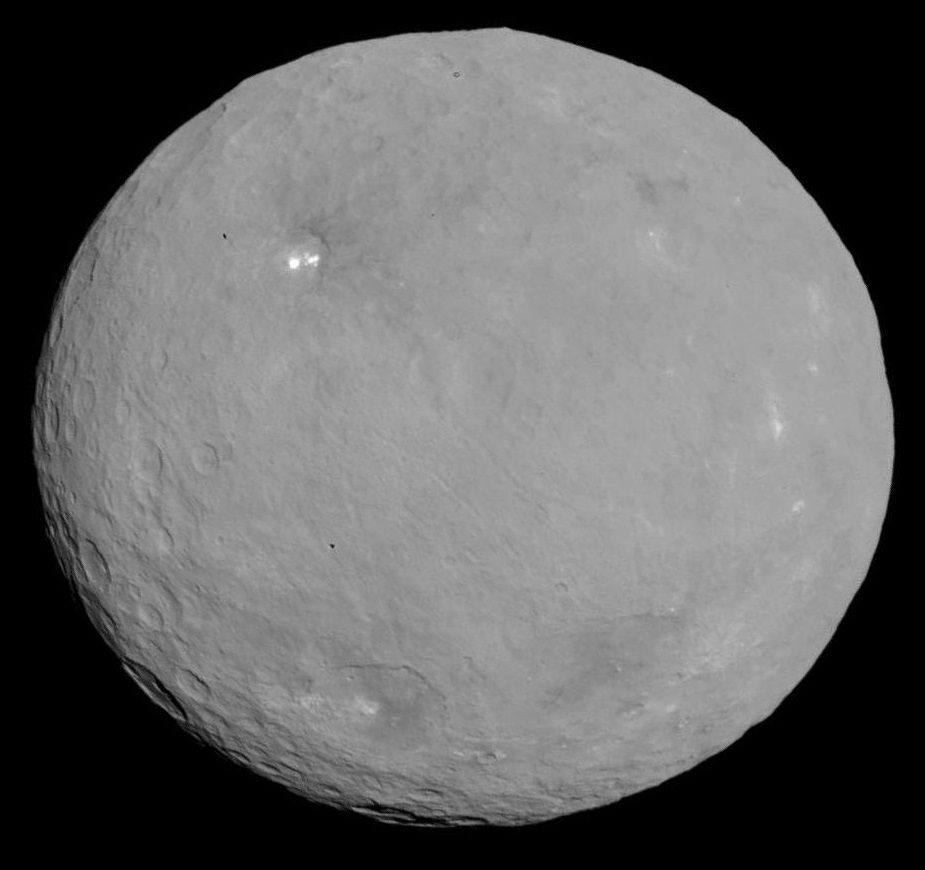 PIA19562: Dawn RC3 Image 19 This image of Ceres is part of a sequence taken by NASA's Dawn spacecraft on May 5 and 6, 2015, from a distance of 8,400 miles (13,600 kilometers). Dawn's mission is managed by JPL for NASA's Science Mission Directorate in Washington. Dawn is a project of the directorate's Discovery Program, managed by NASA's Marshall Space Flight Center in Huntsville, Alabama. UCLA is responsible for overall Dawn mission science. Orbital ATK, Inc., in Dulles, Virginia, designed and built the spacecraft. The German Aerospace Center, the Max Planck Institute for Solar System Research, the Italian Space Agency and the Italian National Astrophysical Institute are international partners on the mission team. For a complete list of acknowledgements, visit For more information about the Dawn mission, visit